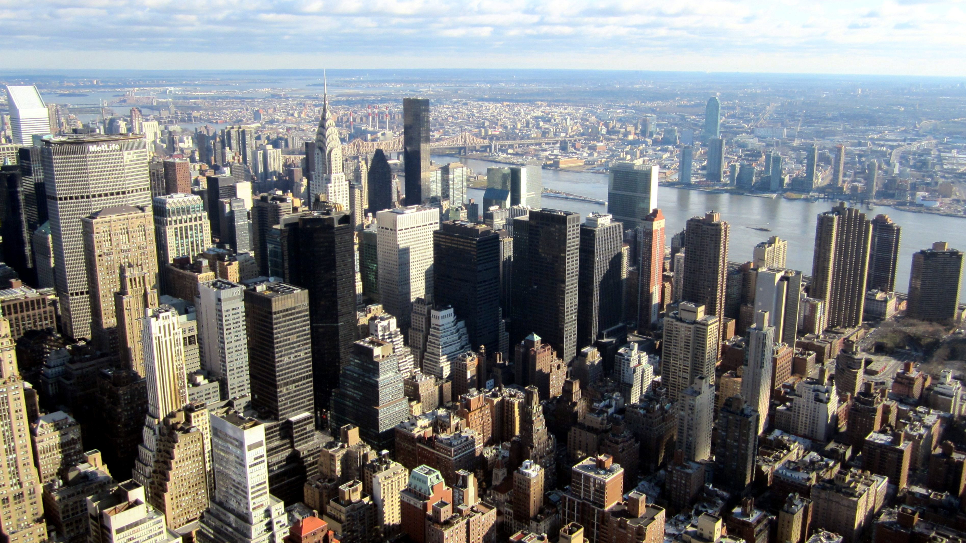 Overview of Manhattan from the Empire State Building.